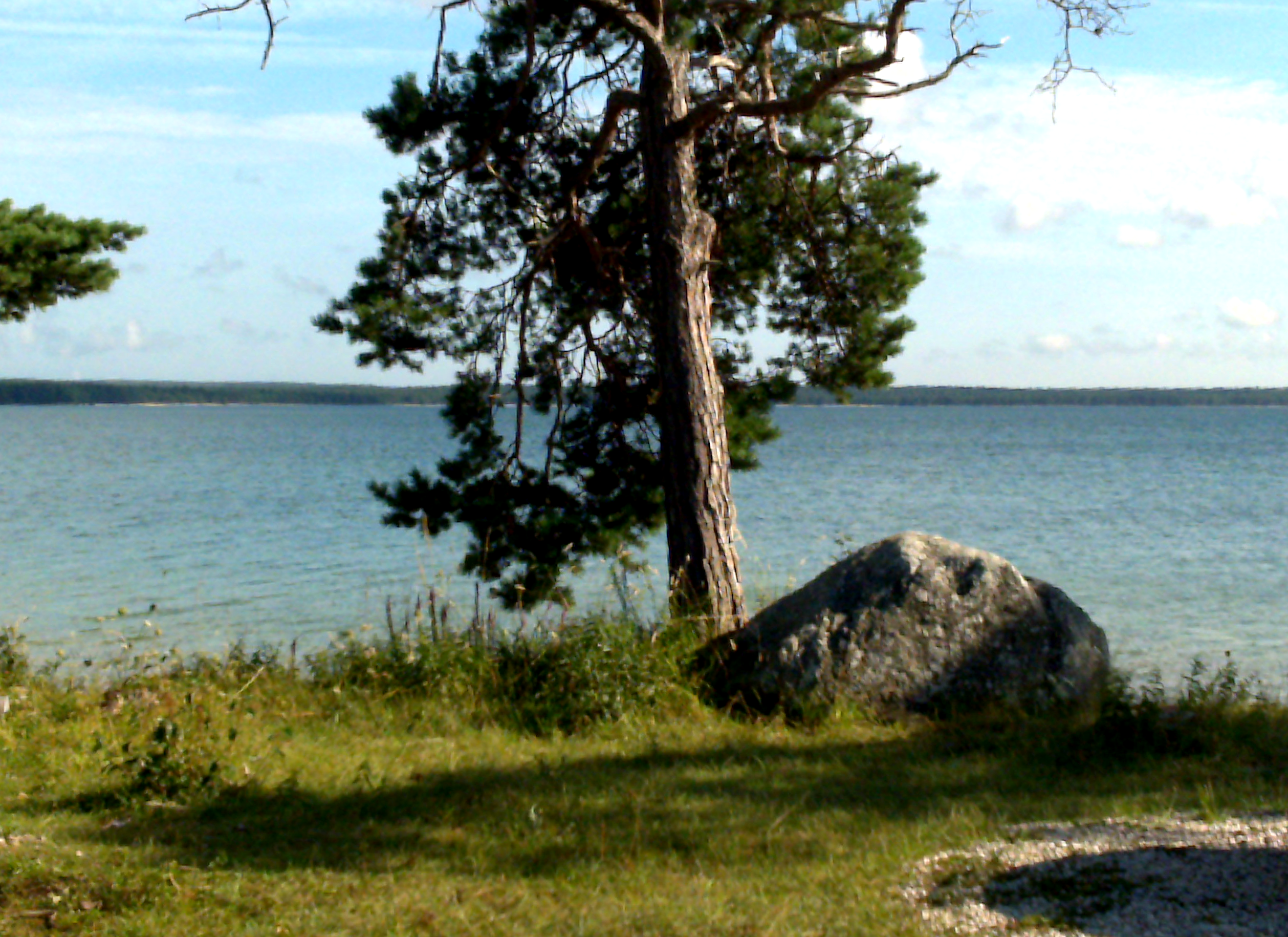 Lake Bästeträsk on the Swedish Island Gotland